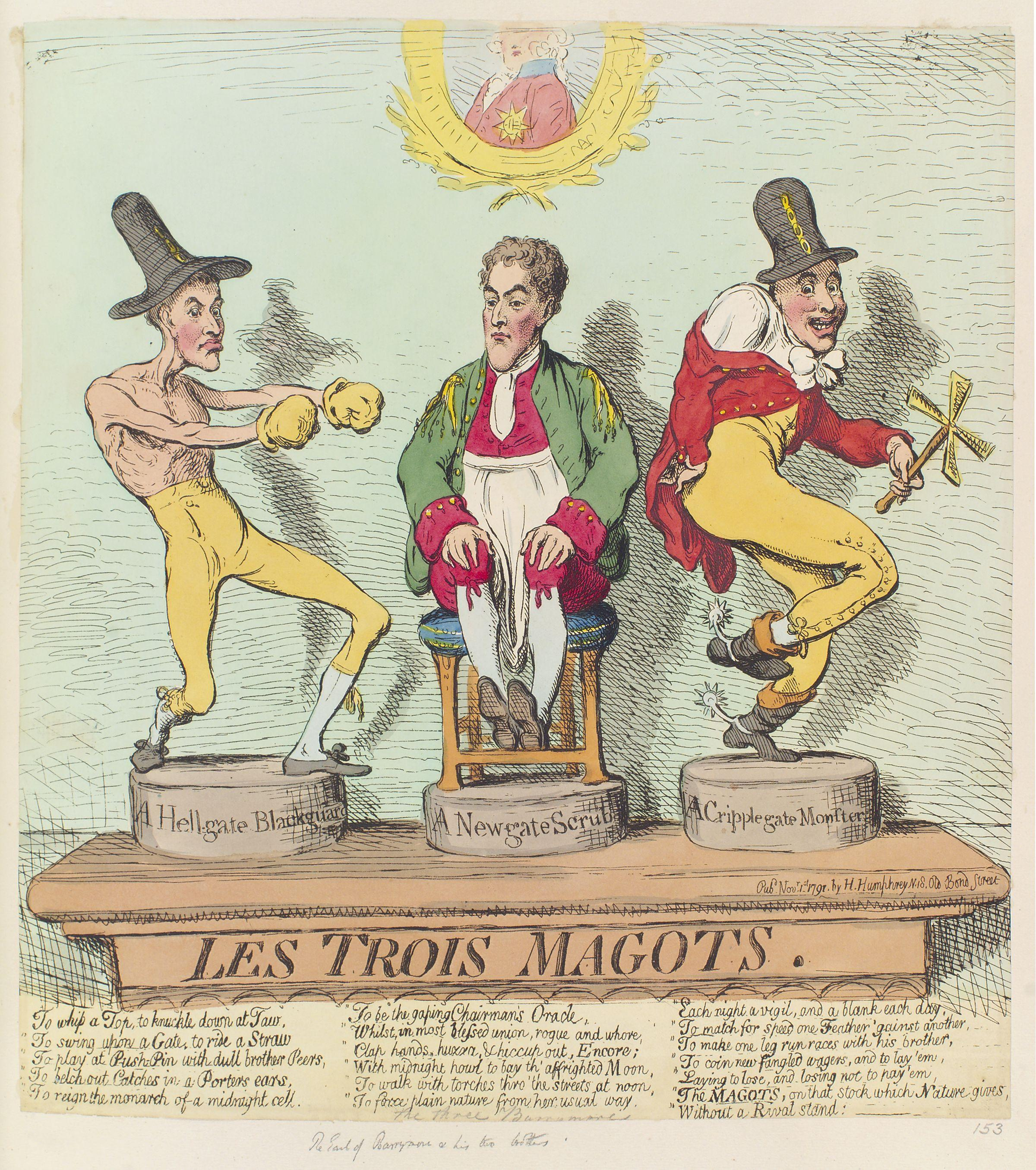 Les trois magots, by James Gillray (died 1815), published 1791. All images in this batch have been confirmed as author died before 1939 according to the official death date listed by the NPG.